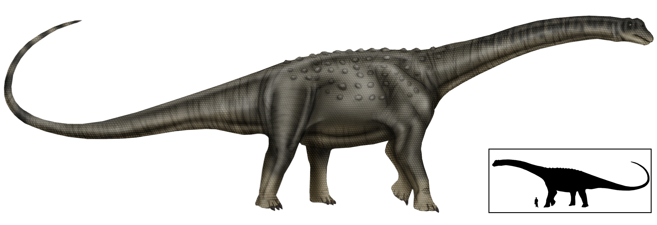 Puertasaurus